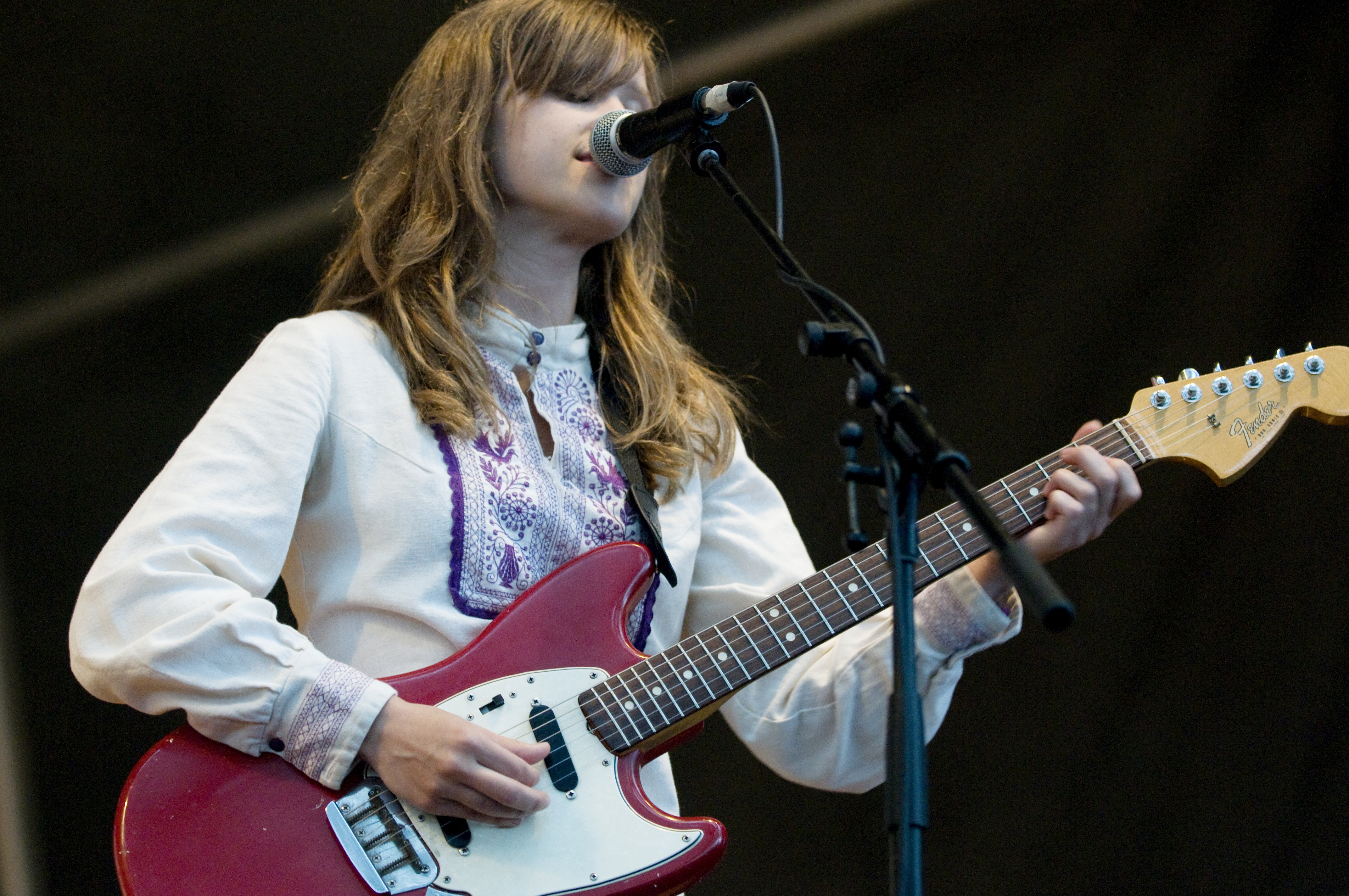 Amber Coffman performing with Dirty Projectors